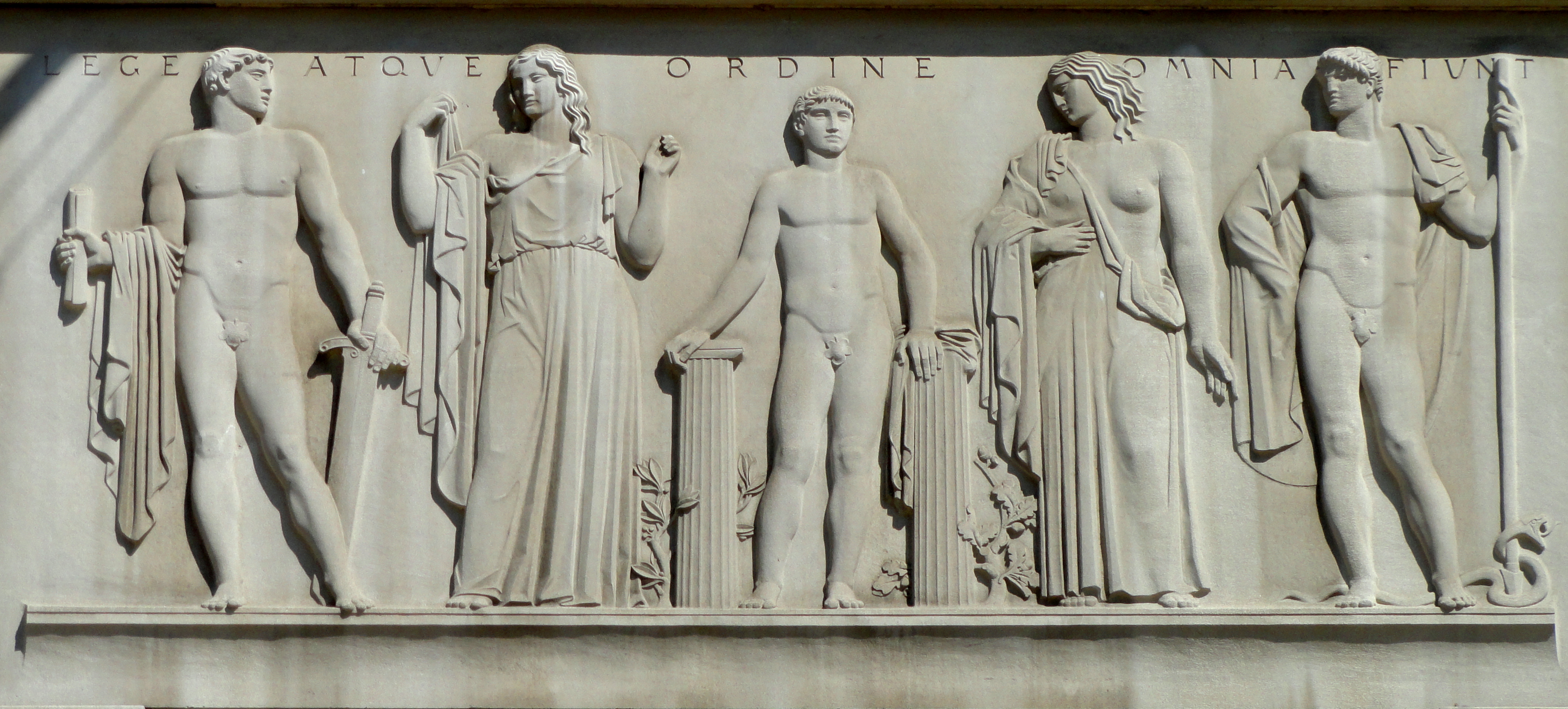 Doorway with relief inscribed "Lege Atque Ordine Omnia Fiunt" (by law and order all is accomplished) - Robert F. Kennedy Department of Justice Building, Washington, DC, USA. Relief was designed by Carl Paul Jennewein, and is in the public domain because it was published without a copyright notice prior to 1978.